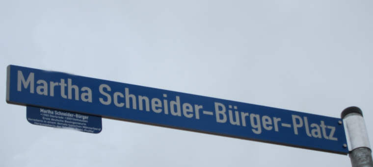 street sign for the Schneider-Bürger-place in Oberhausen-Sterkrade